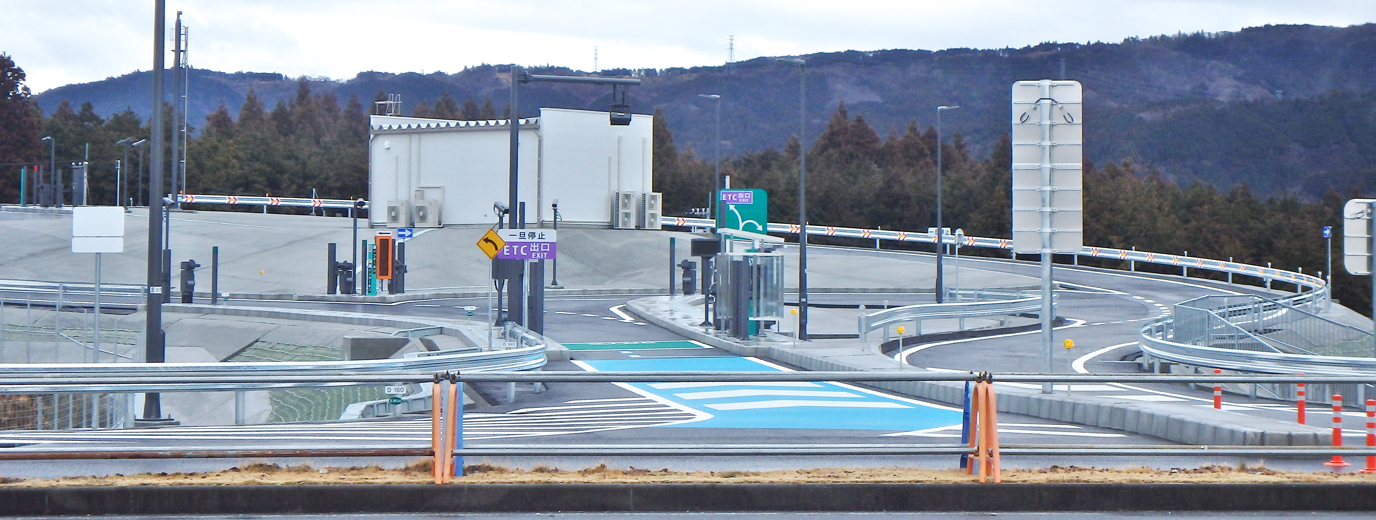 Ashigara Smart Inter Change, Shizuoka prefecture,Japan